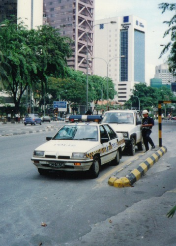 Image of a Proton Saga type in police patrol car in the year 1994.